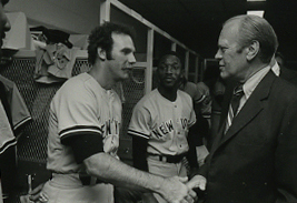 The photo contact sheet, identified as B0656 by the White House Photographic Office (WHPO), is housed at the Gerald R. Ford Presidential Library, a branch of the National Archives and Records Administration (NARA). This file is a 200 dpi photo contact sheet having images from roll of film B0656 of the August 9, 1974 - January 20, 1977 Gerald R. Ford White House Photographic Office Series A0001-A9999 and B0001-B2886 photographs. The date on the photo contact sheet is the date the roll of film was processed, not necessarily the date the photographs were taken. See table below for additional details.